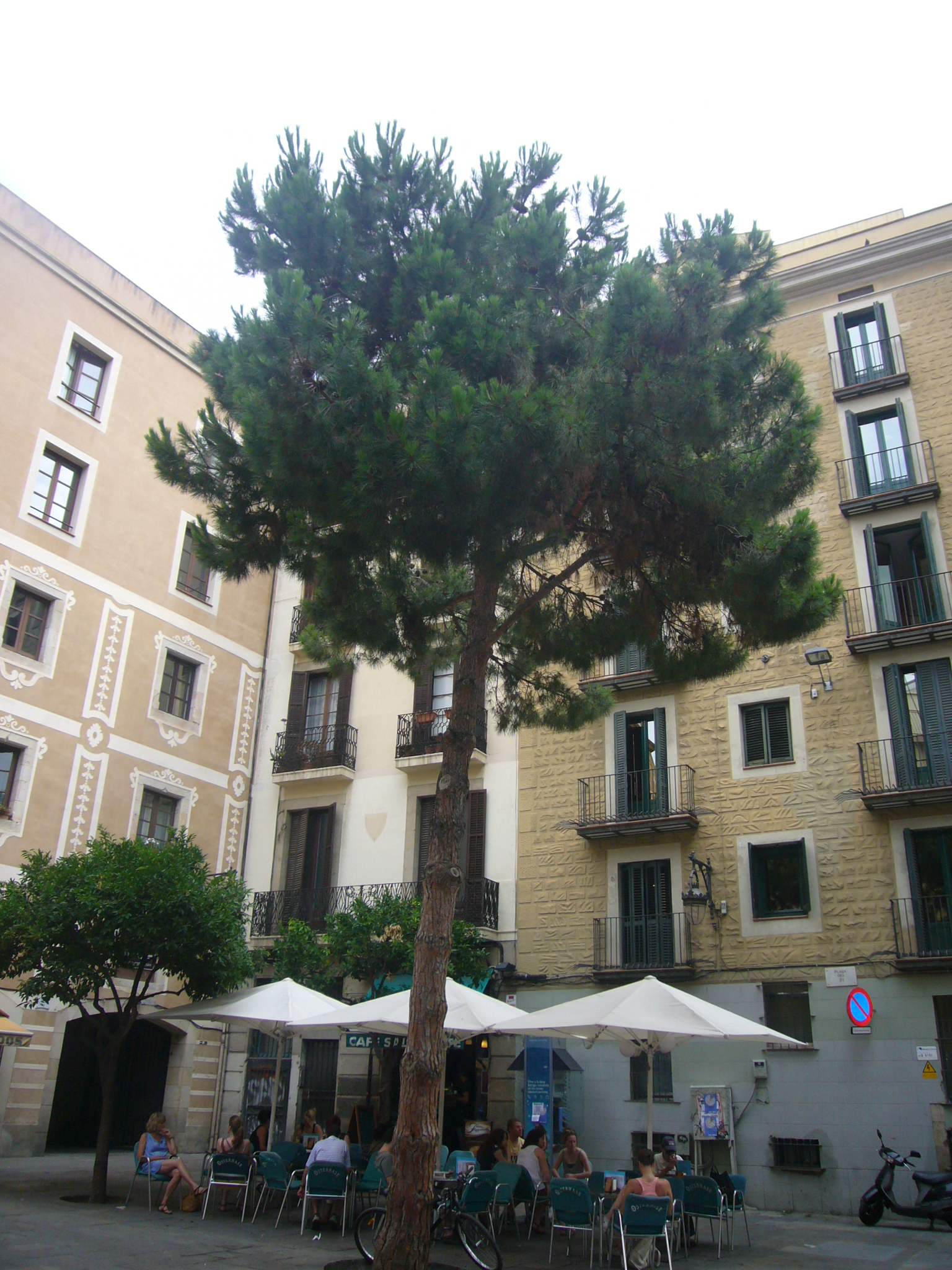 Stone Pine tree at the Plaça del Pi (pine tree square) in Barcelona.